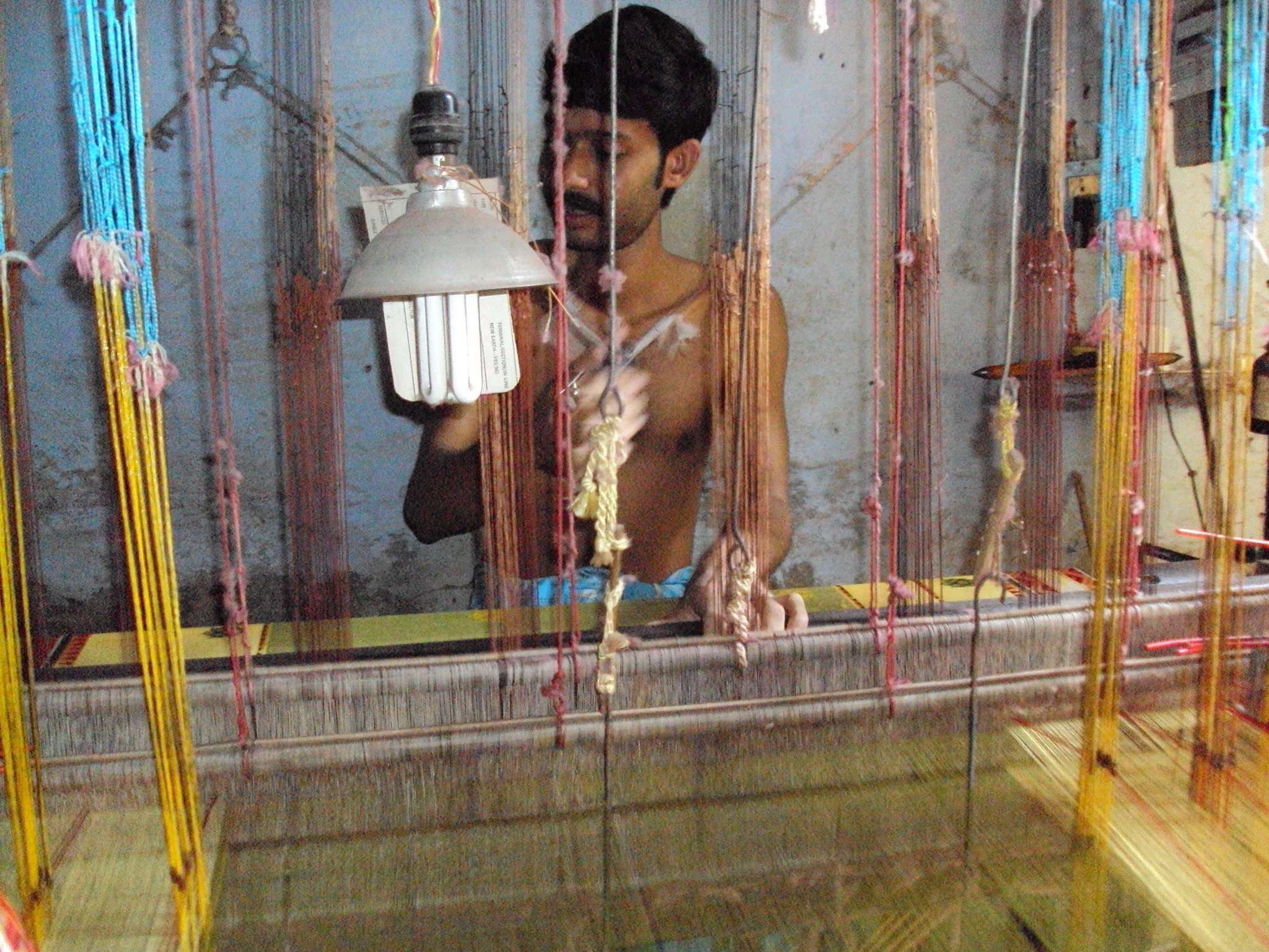 Weaver making saree Bishnupur